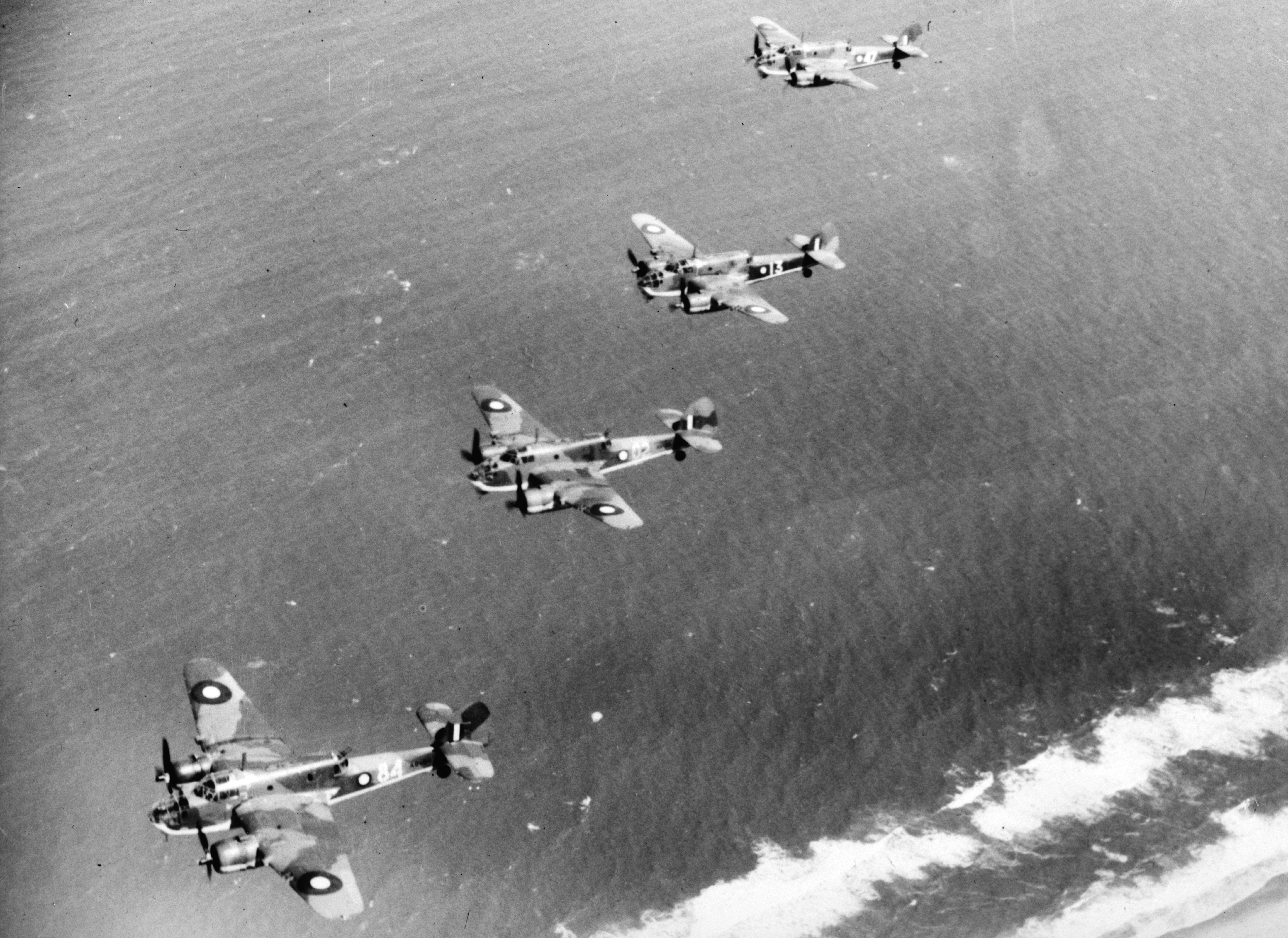 Four RAAF Bristol Beaufort Mk.V torpedo bombers in flight over the Australian coastline, circa 1942.